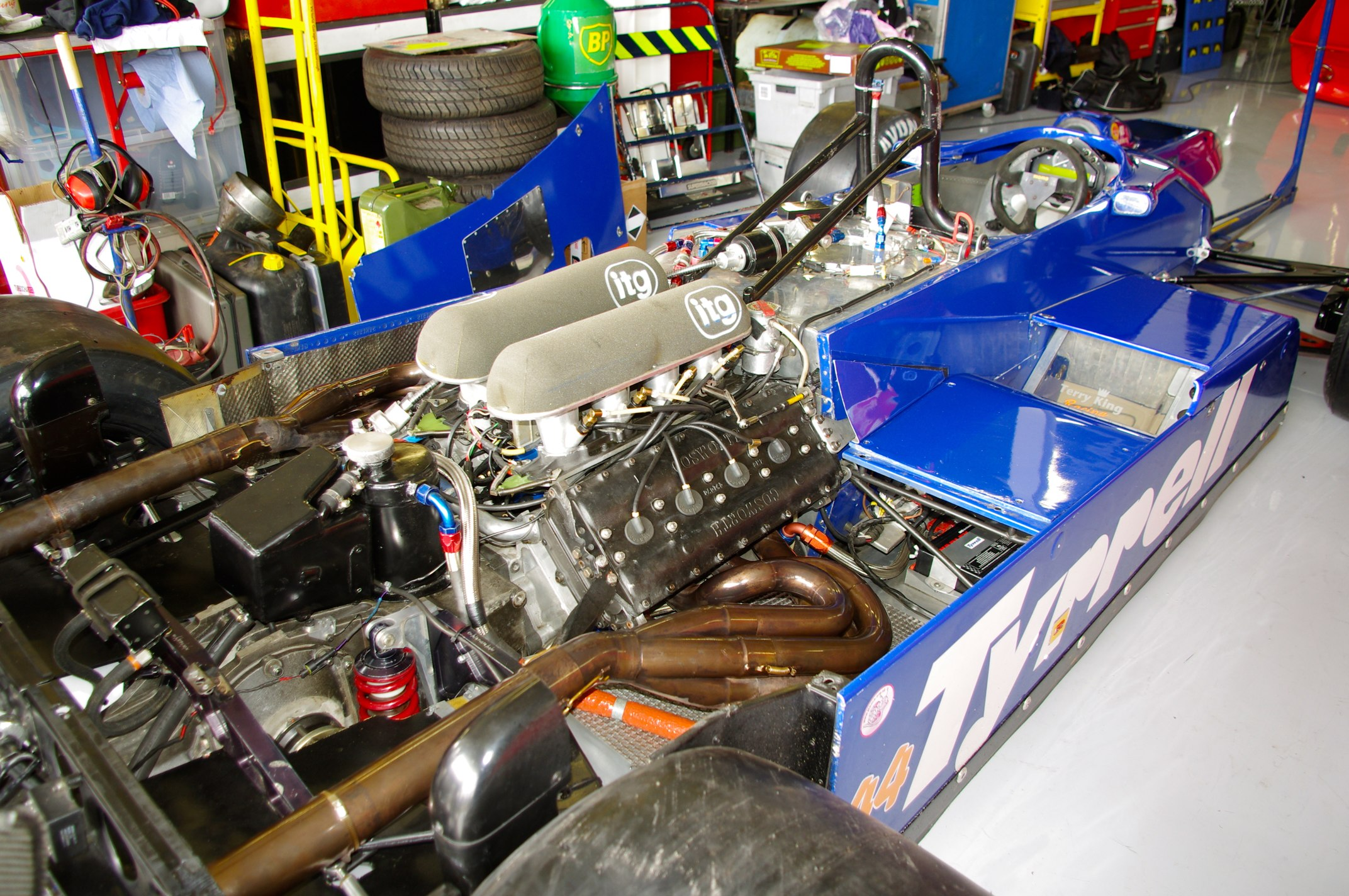 Silverstone Classic 2011